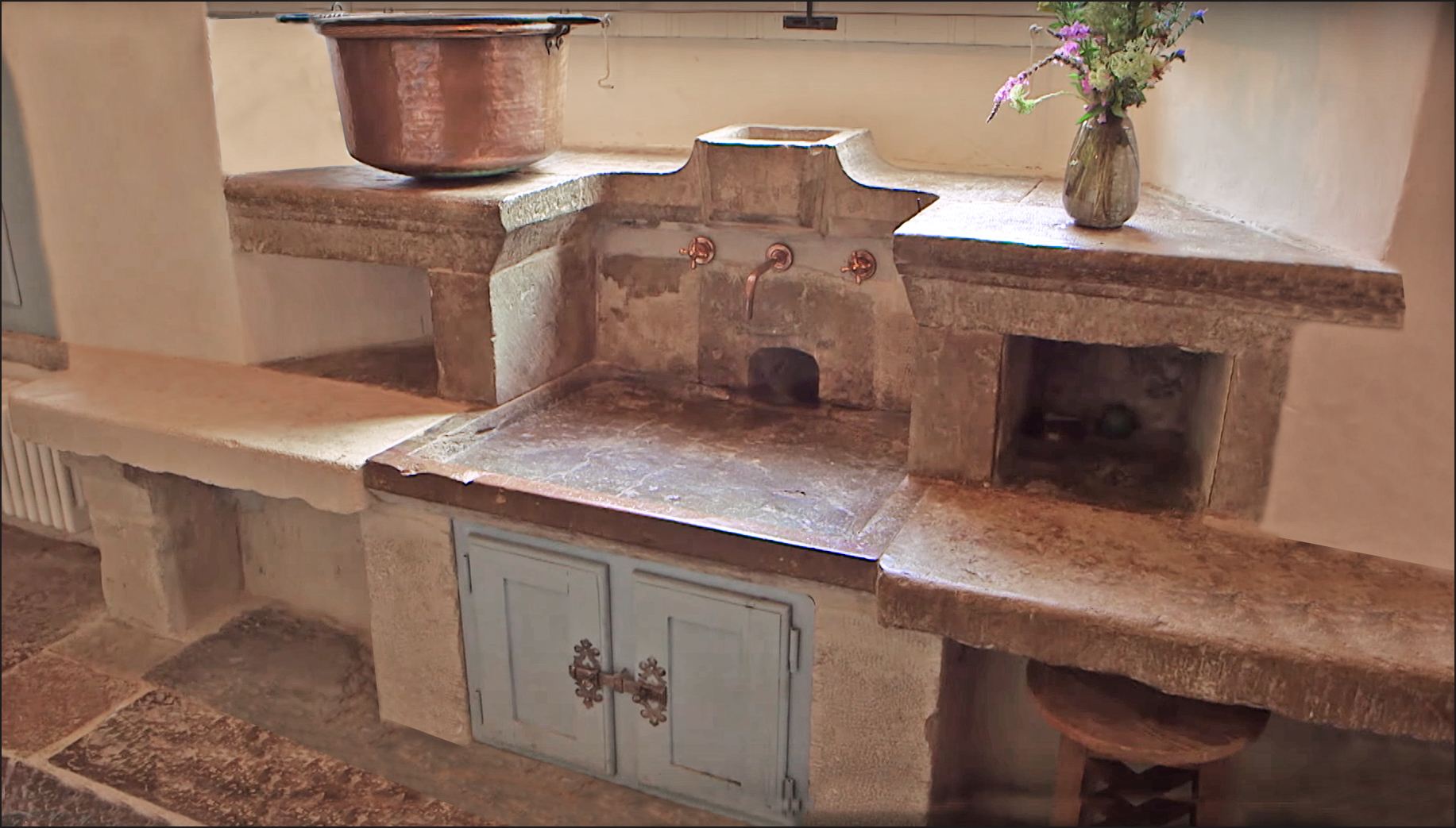 Stone sink in a kitchen around 1900.